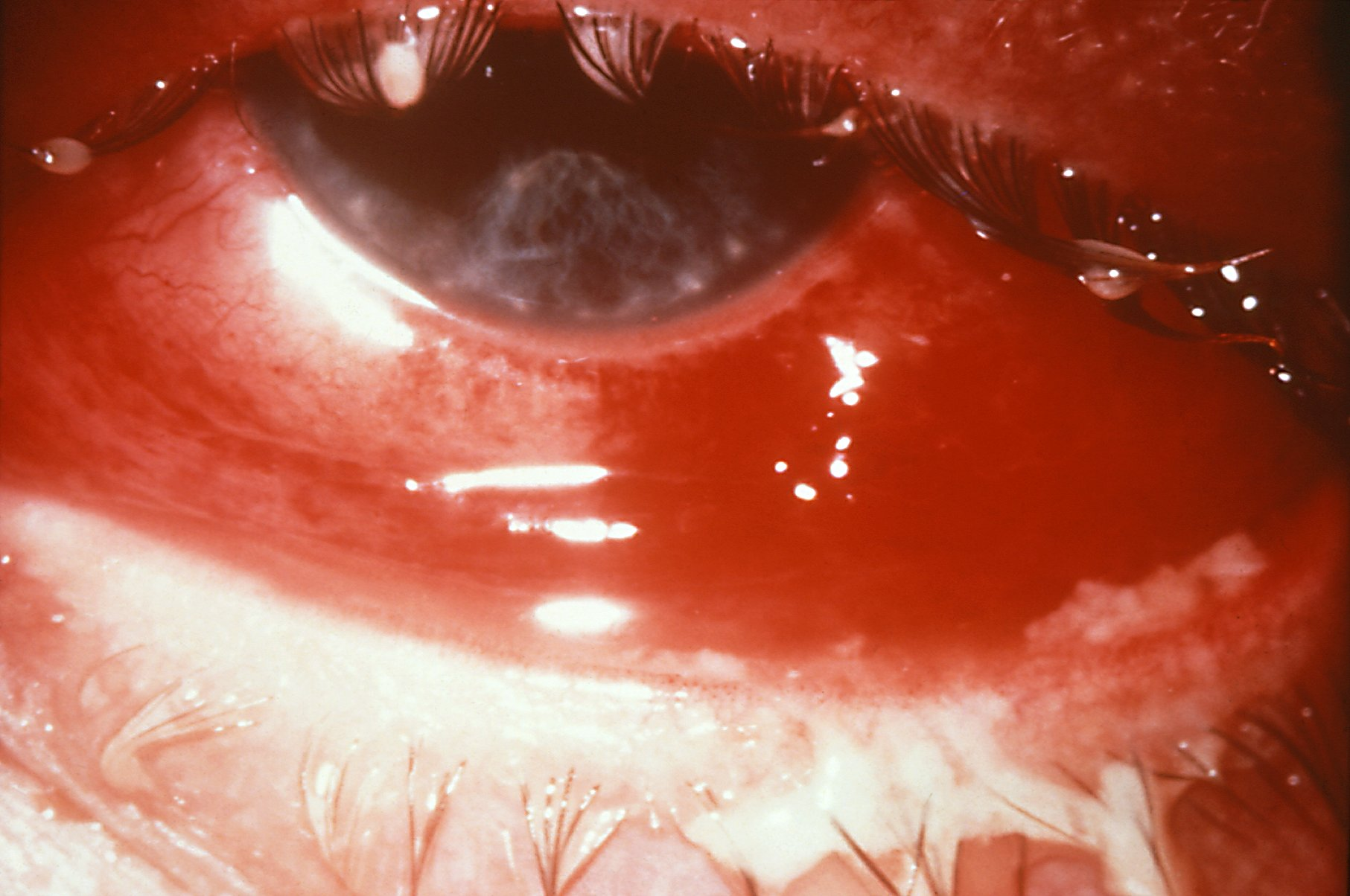 This case of gonorrheal conjunctivitis resulted in partial blindness due to the spread of N. gonorrhoeae bacteria.